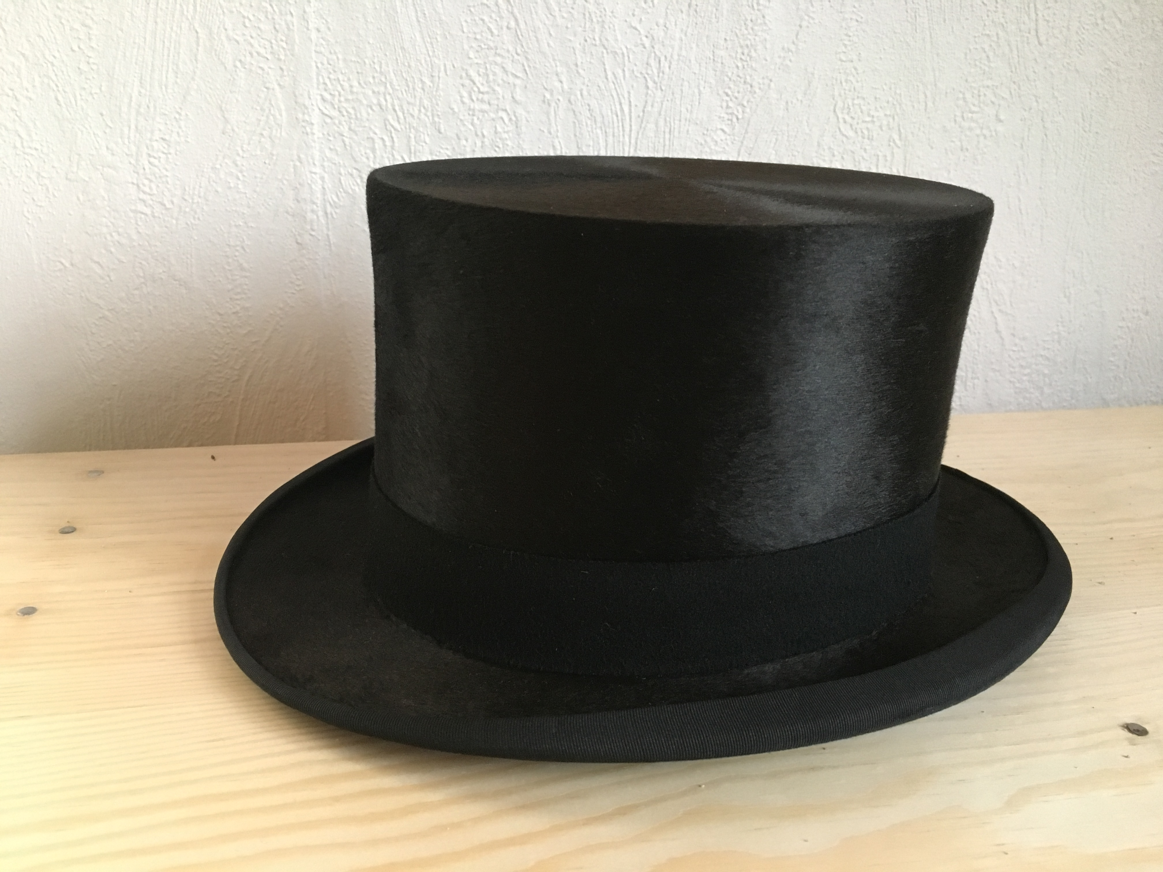 Top hat from the Australian company Hardy Brothers